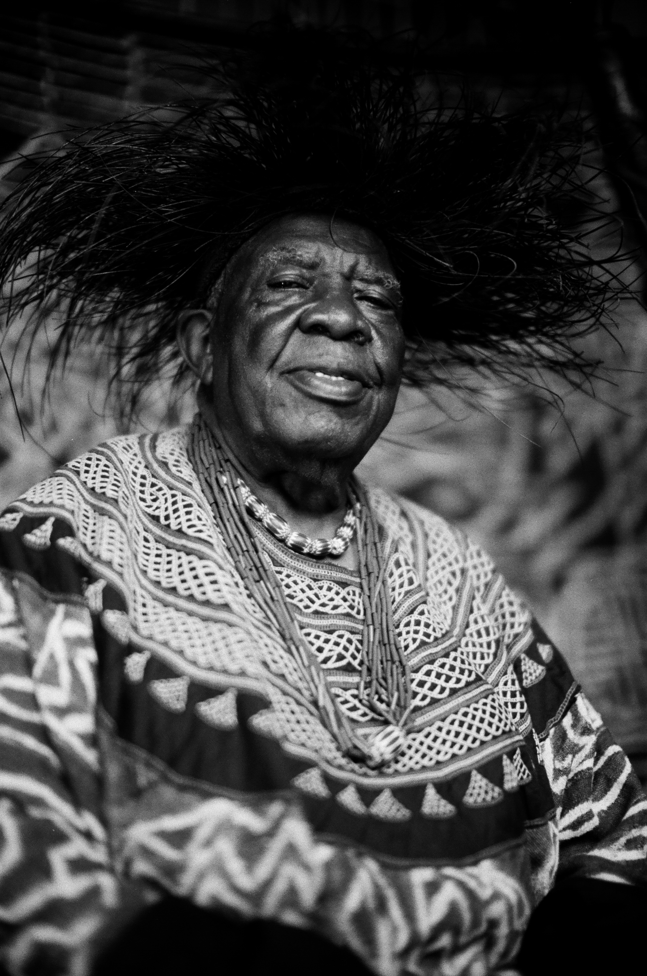 0.95 Born in 1925, on May 1, into the prominent and influential royal family of Mankon in the Bamenda Grassfields of Cameroon, Solomon Anyeghamotü Ndefru attended the Aggrey Memorial College Arochuku, Eastern Nigeria, from 1945-1950, where he obtained the Senior Cambridge Secondary School Certificate. He later enrolled in the University College Ibadan, Nigeria, and graduated with a Diploma in Agriculture in 1953. Until he was enthroned as the twentieth king of Mankon in 1959, he was the Chief of Agricultural Technicians in Wum. As Fo Angwafo III. S.A.N. of Mankon, one of the most educated traditional rulers at the dawn of independence, he succeeded into Parliament. He has served as First National Vice-President of Paul Biya´s Cameroon People´s Democratic Movement since 1990. He accompanied President Paul Biya to Auckland, New Zealand, in 1995 when Cameroon was admitted into the Commonwealth of Nations.